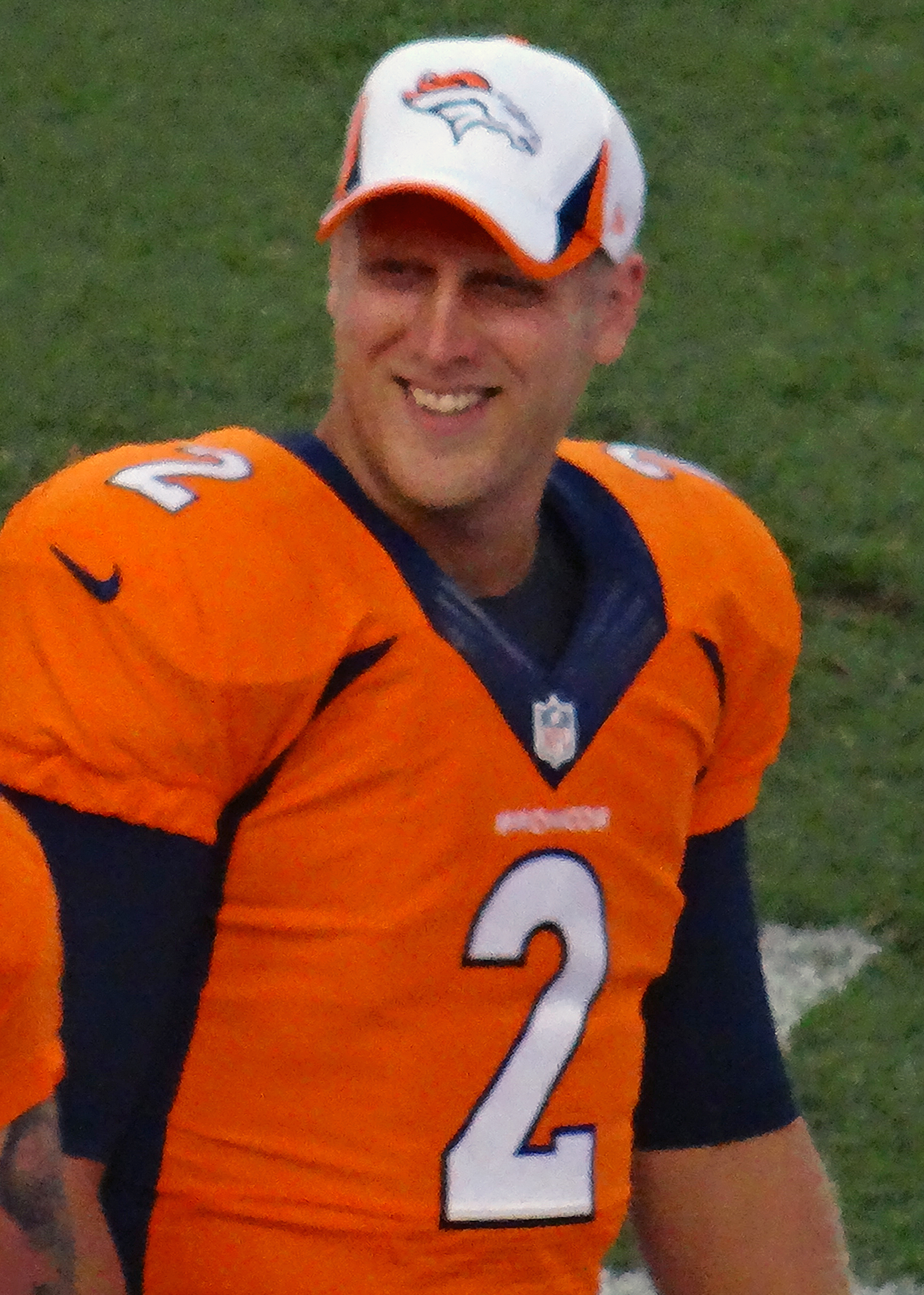 Zac Dysert, a player on the National Football League.